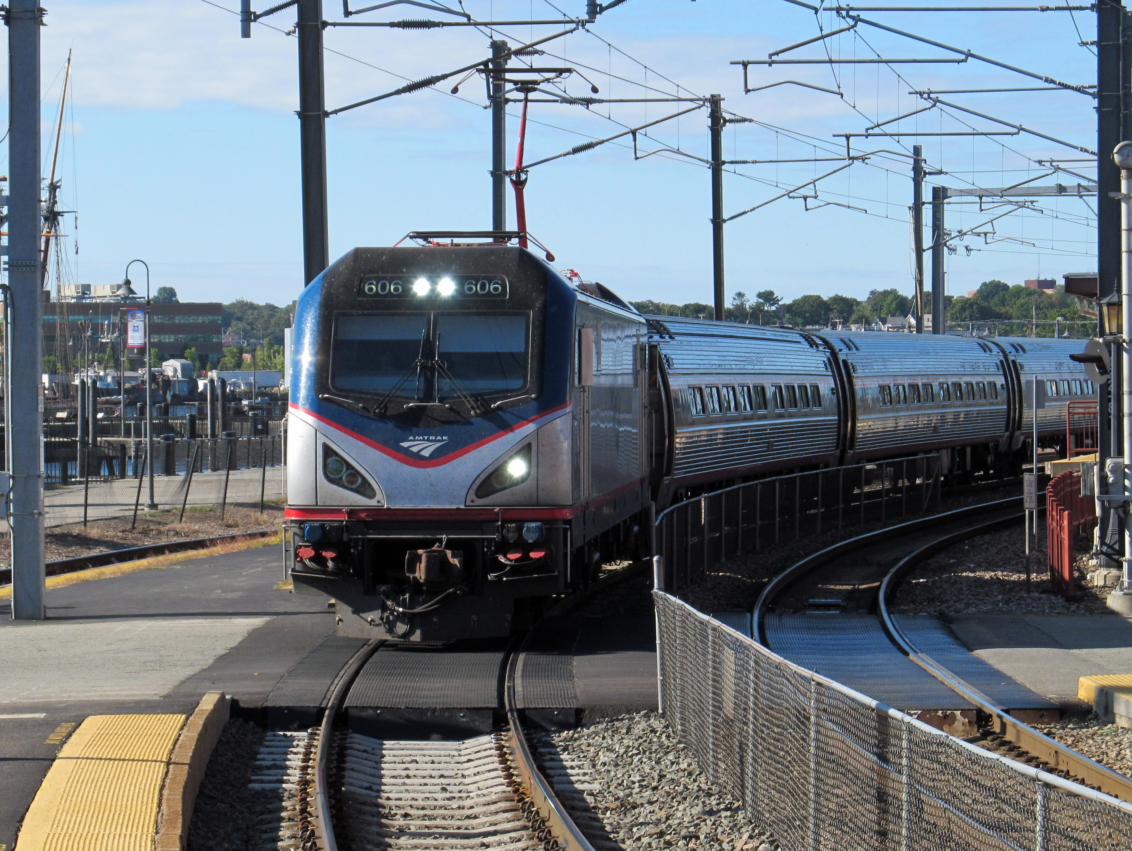 Amtrak ACS-64 #606 pulls a northbound Northeast Regional into New London Union Station in September 2014